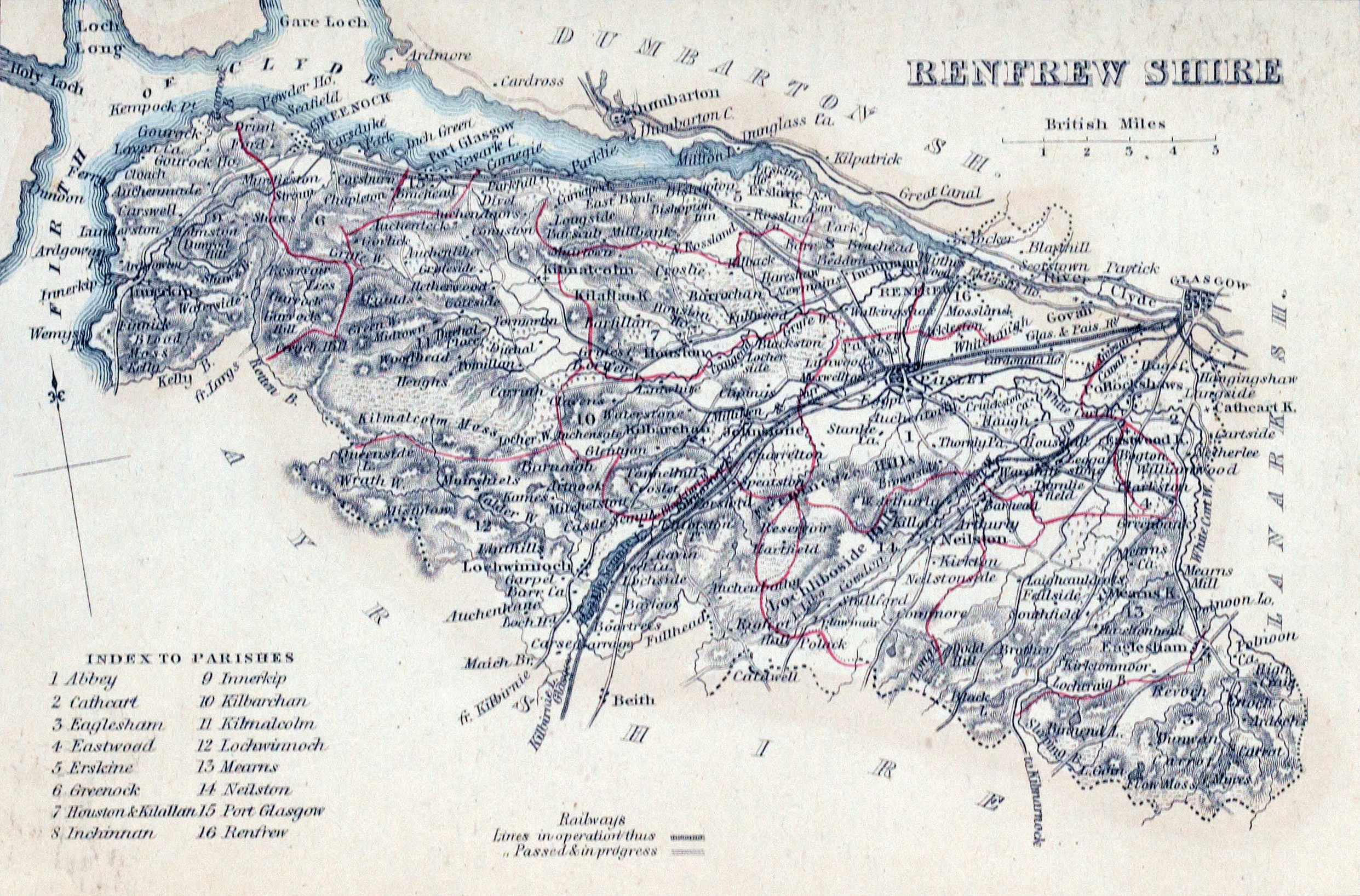 RENFREWSHIRE Civil Parish map. The Imperial gazetteer of Scotland. Vol.II. by Rev. John Marius Wilson.